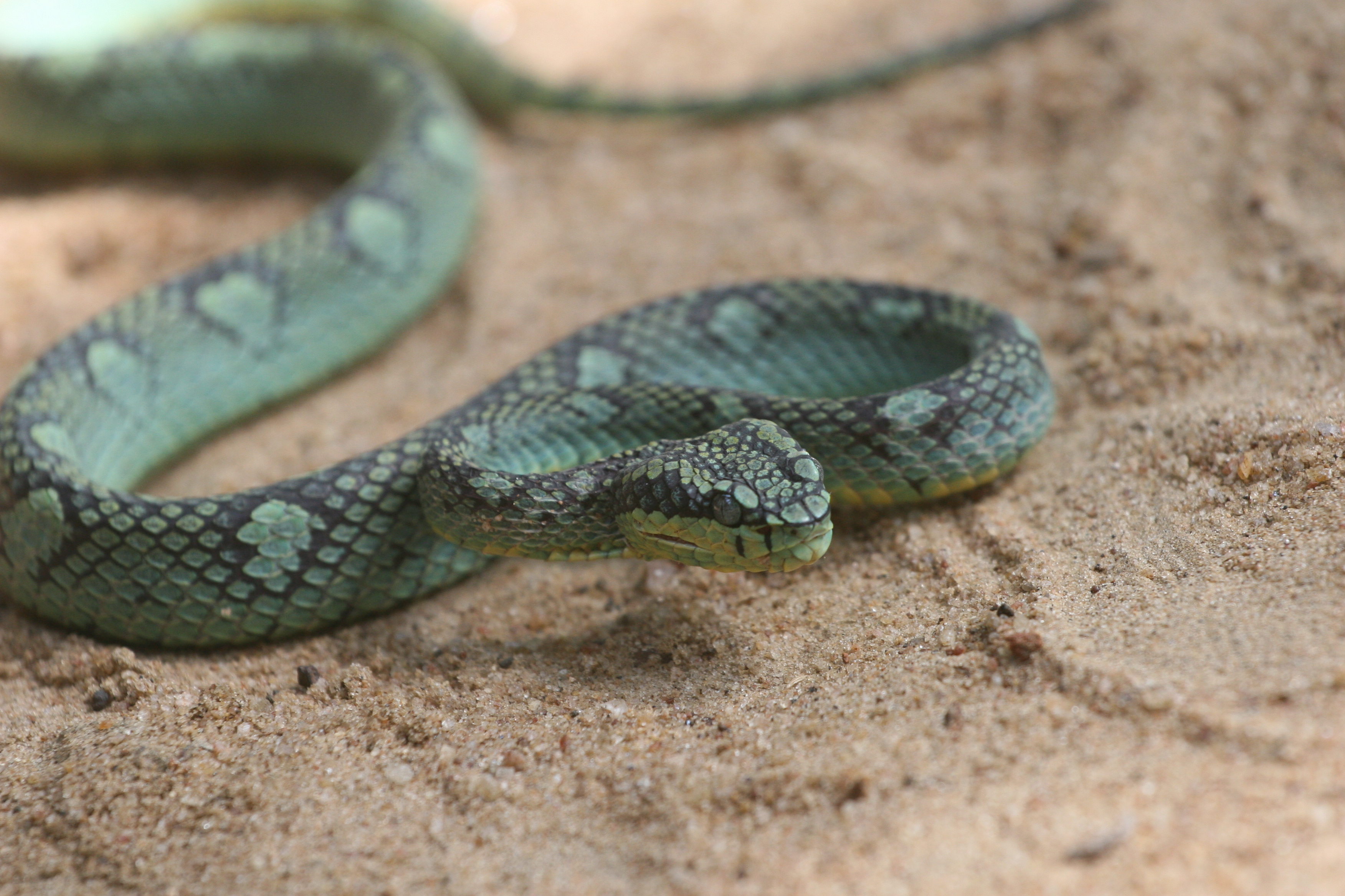 Trimeresurus trigonocephalus